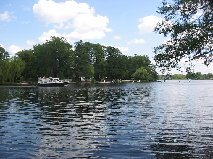 Staabe (part of river Dahme) in the village Neue Mühle, part of the town Königs Wusterhausen in the district Dahme-Spreewald, state Brandenburg, Germany.